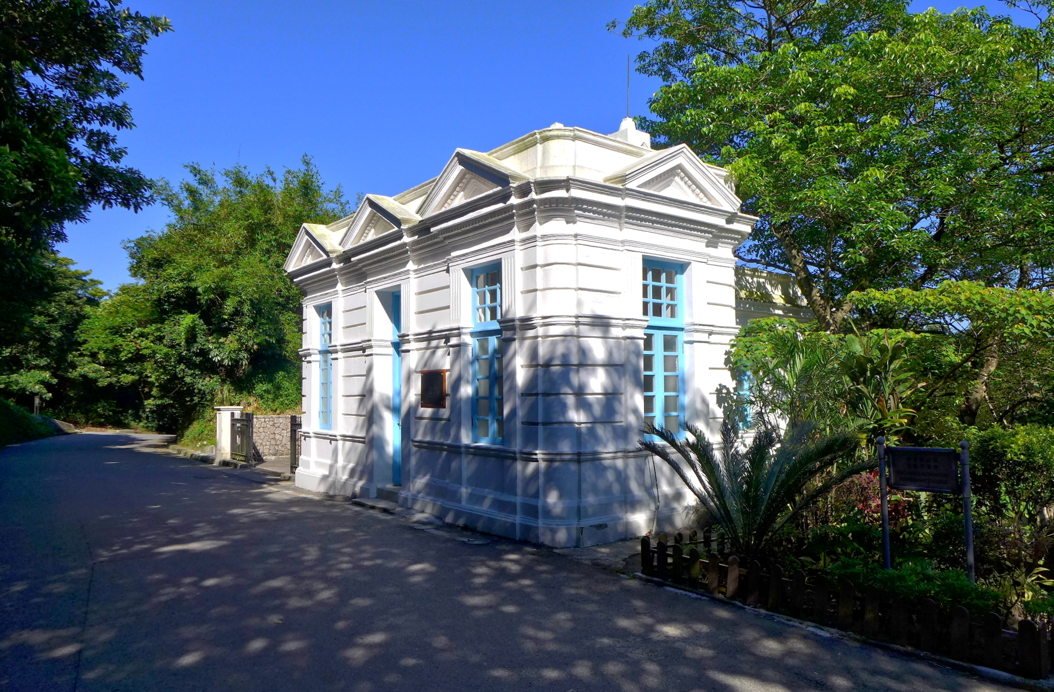 The Mountain Lodge Guard House